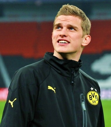 Sven Bender